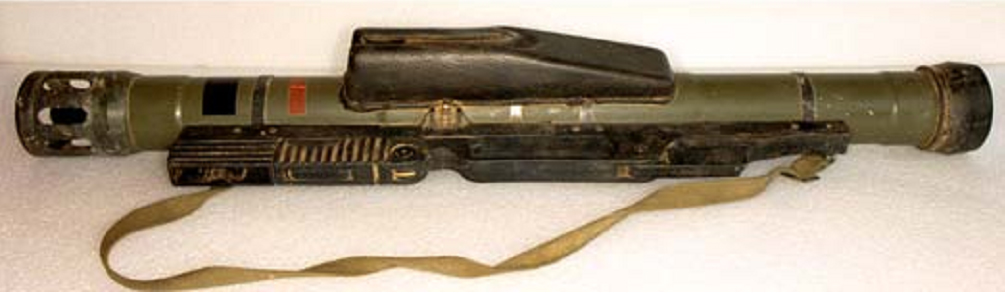 A photo of an Armbrust rocket launcher from the Iraq OIG group. The firing handle is folded up covering the trigger mechanism.